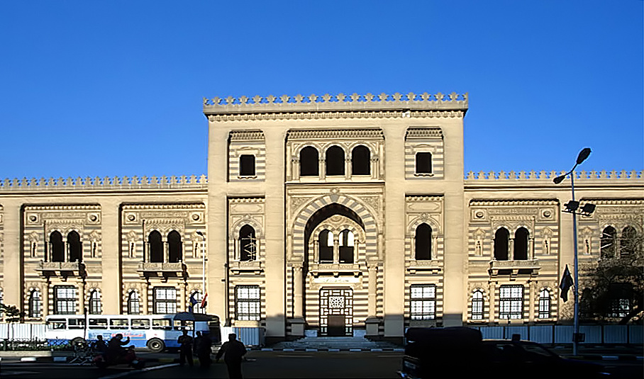 Façade of the Islamic Museum, Cairo, Egypt